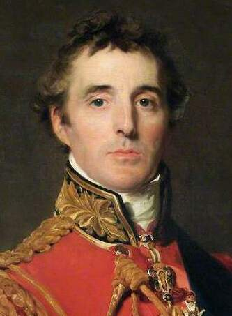 Detail of Portrait of Sir Arthur Wellesley, Duke of Wellington